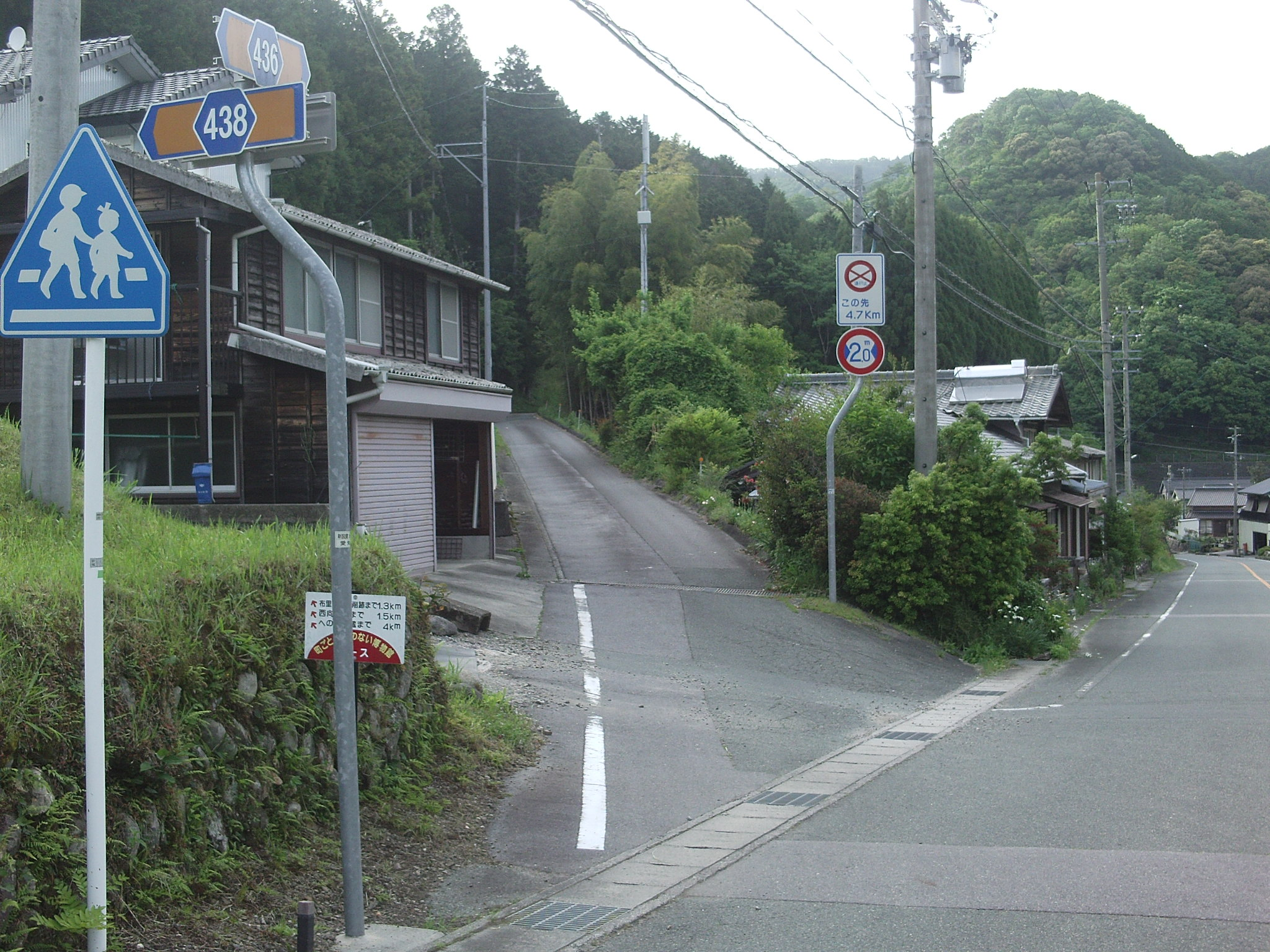 Aichi prefectural road No.438 in Furi, Shinshiro, Aichi.